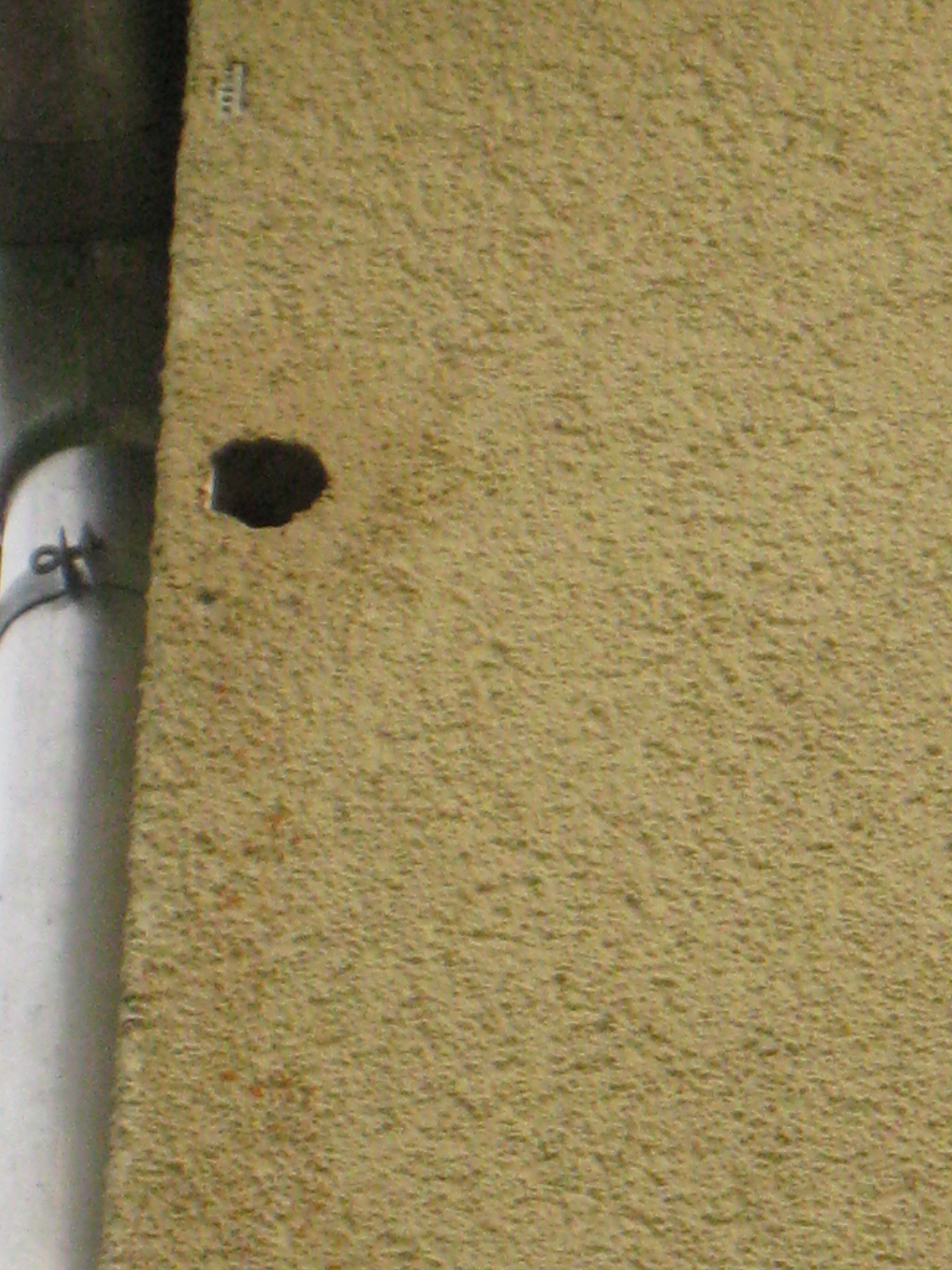 Damages of woodpeckers at a fassade, in Germering, Germany (near Munich)